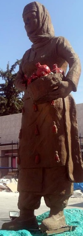 Statue of Gulnar Hatun.